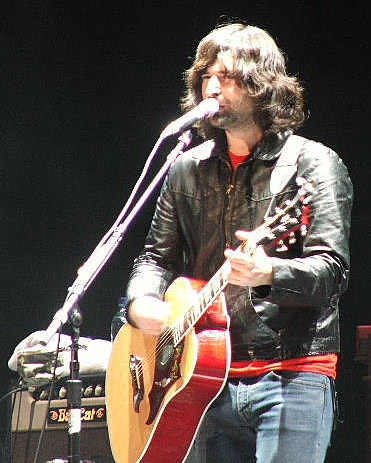 Pete Yorn opening for the Dixie Chicks in Austin, Texas. Photo by Ron Baker.